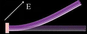 author: Zhao WANG Created by : Zhao WANG Copyright reserved. This figure shows the deflection of a metallic carbon nanotube (5,5) induced by an electrostatic field due to electric polarization effects.